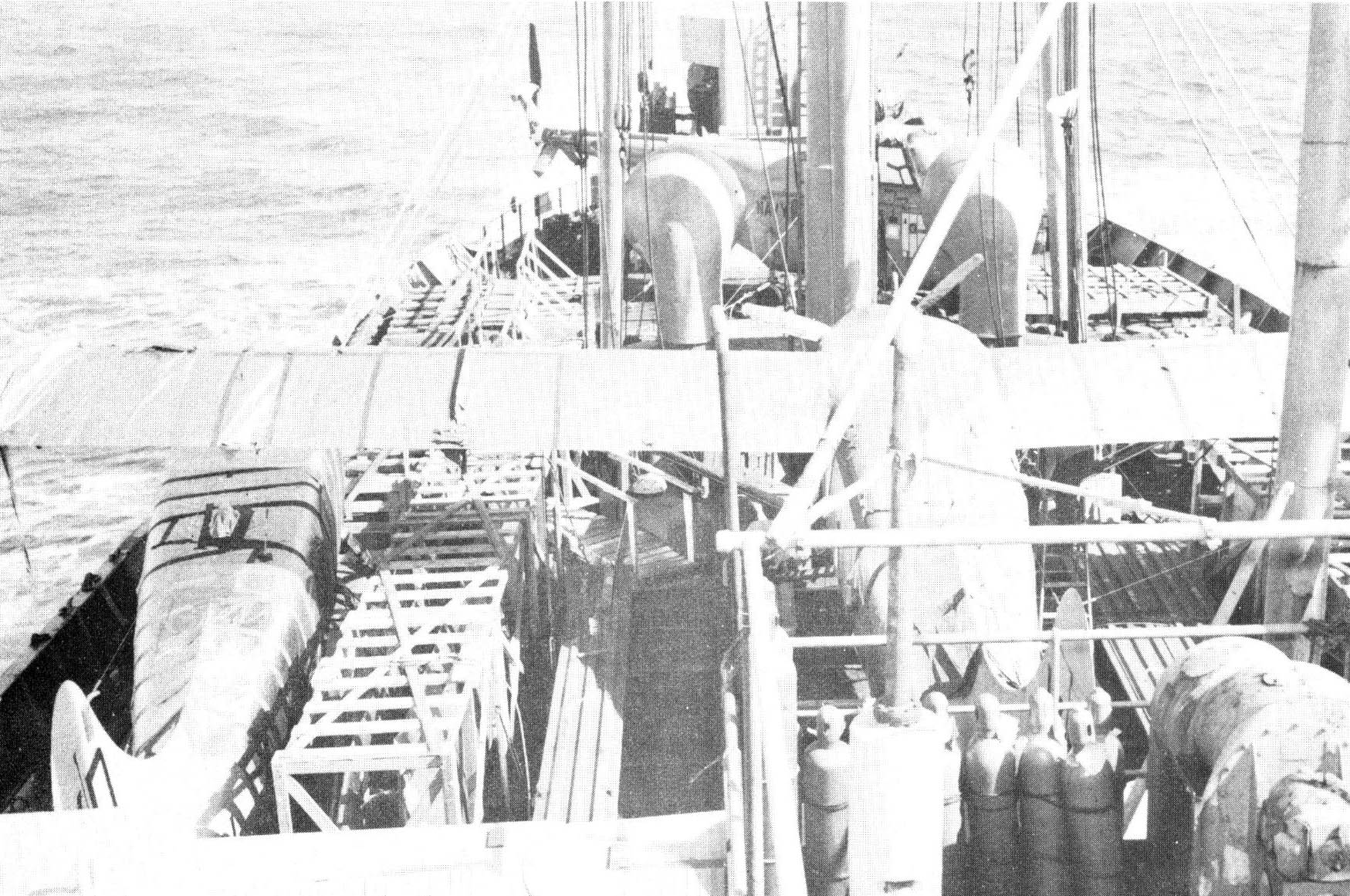 UC-1 aircraft loaded over No. 4 hold of the USNS Greenville Victory (T-AK-237), one of the task force cargo ships. A helicopter is visible on hatch No. 5, and other deck cargo in the background.